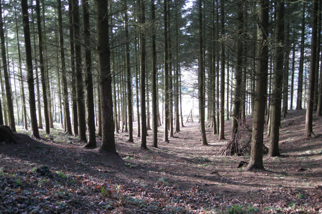 Douglas Fir plantation east of Cofton